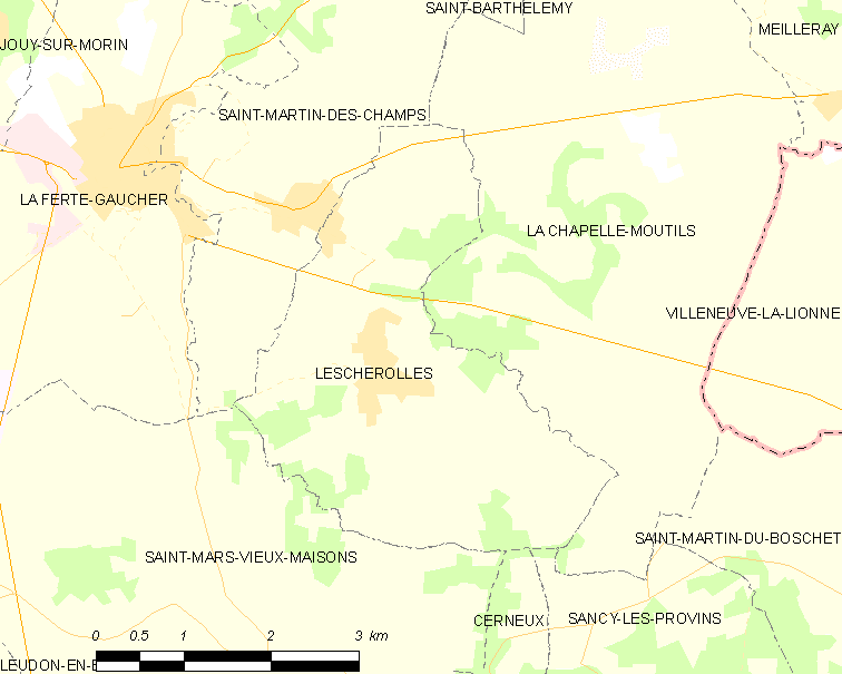 Map of French municipality Lescherolles